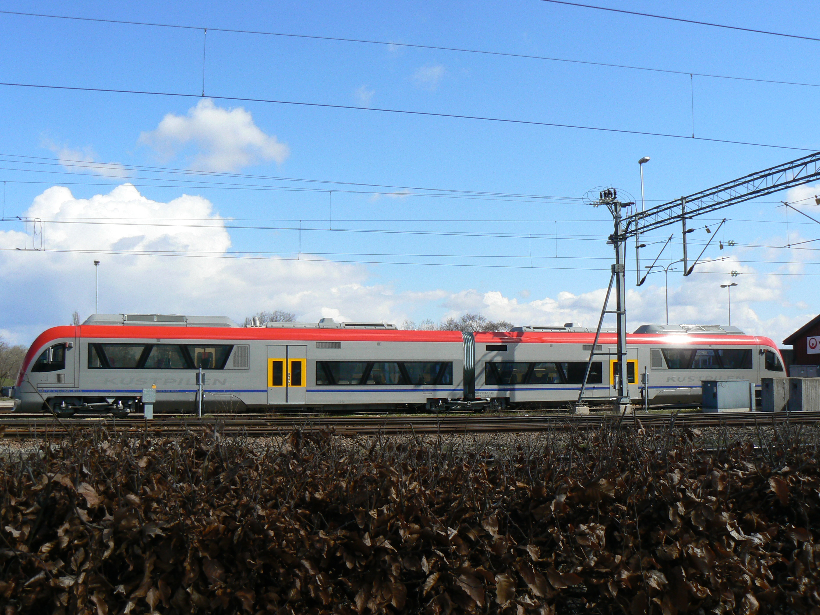 Itino train (Y31) on Linköping central station, Sweden.